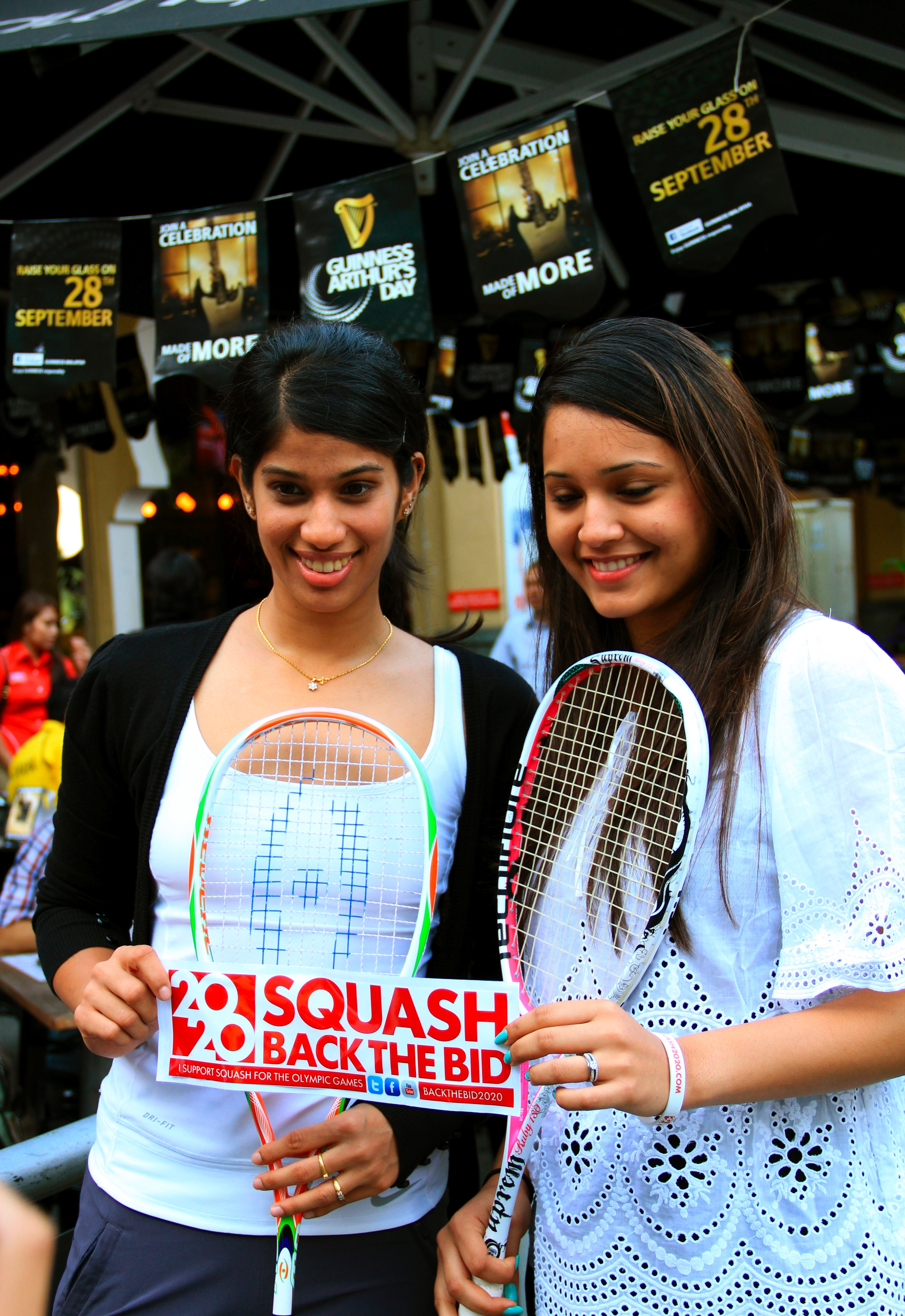 BacktheBid2020 Flashmob @ The Curve - 10th September 2012